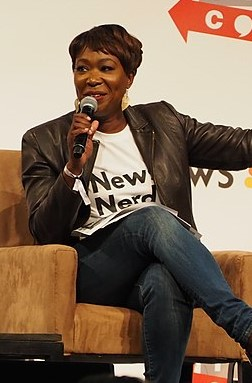 Politicon 2018 Joy Reid